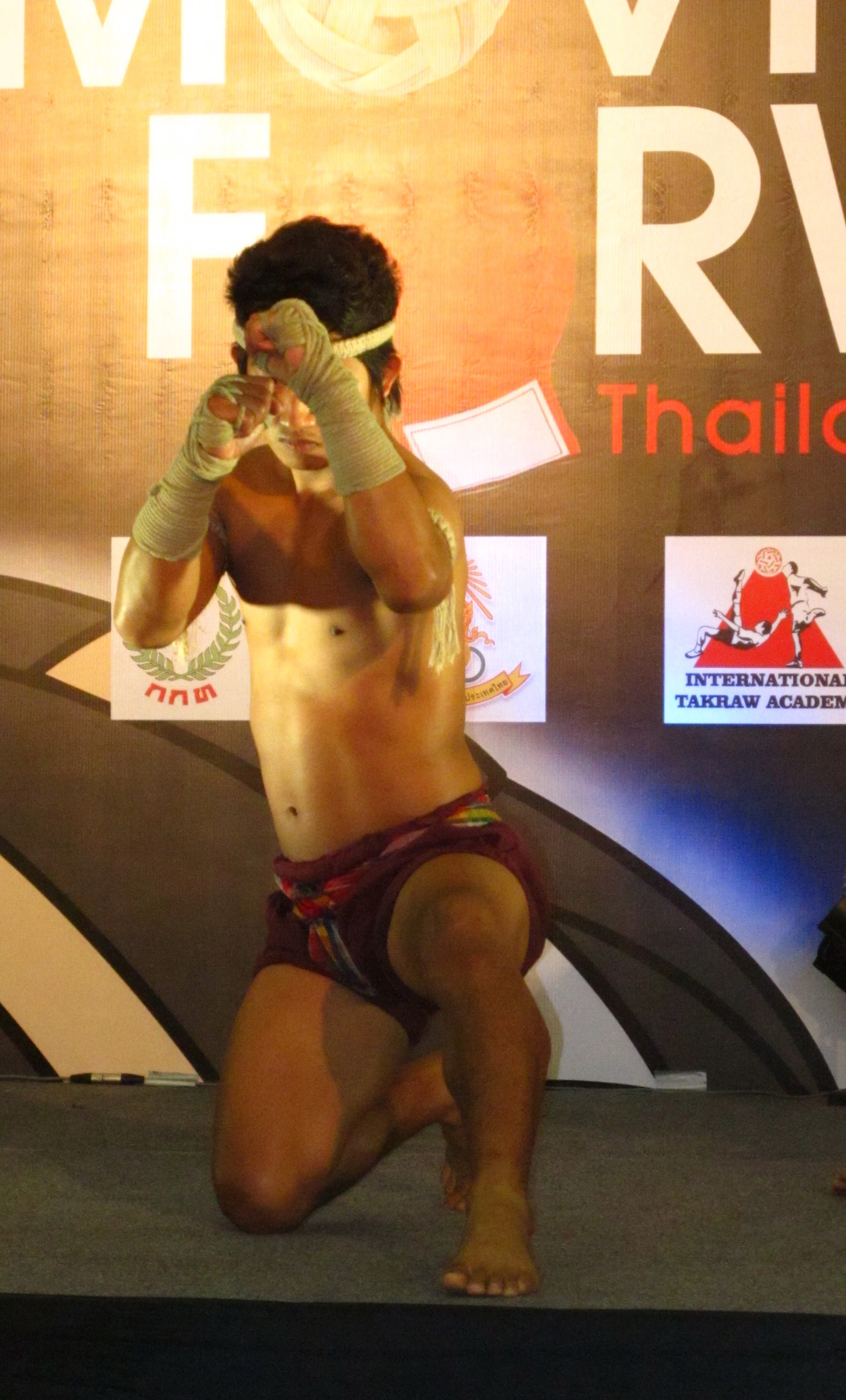 Wai khru ram muay 5